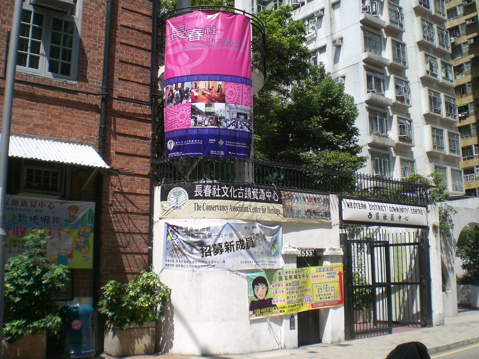 在zh:西營盤zh:第三街西區社區中心的長春社